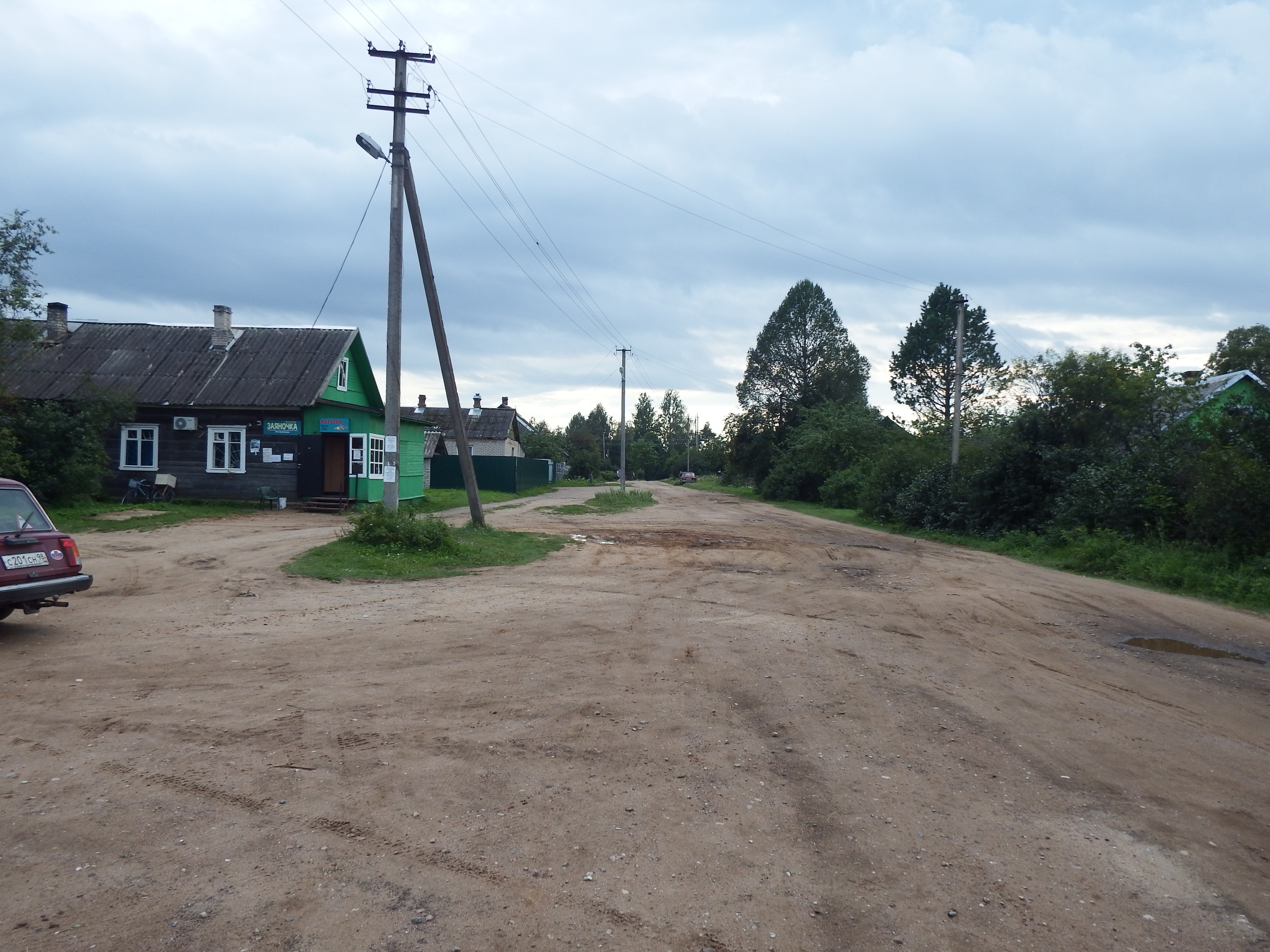 Zayanie, general view